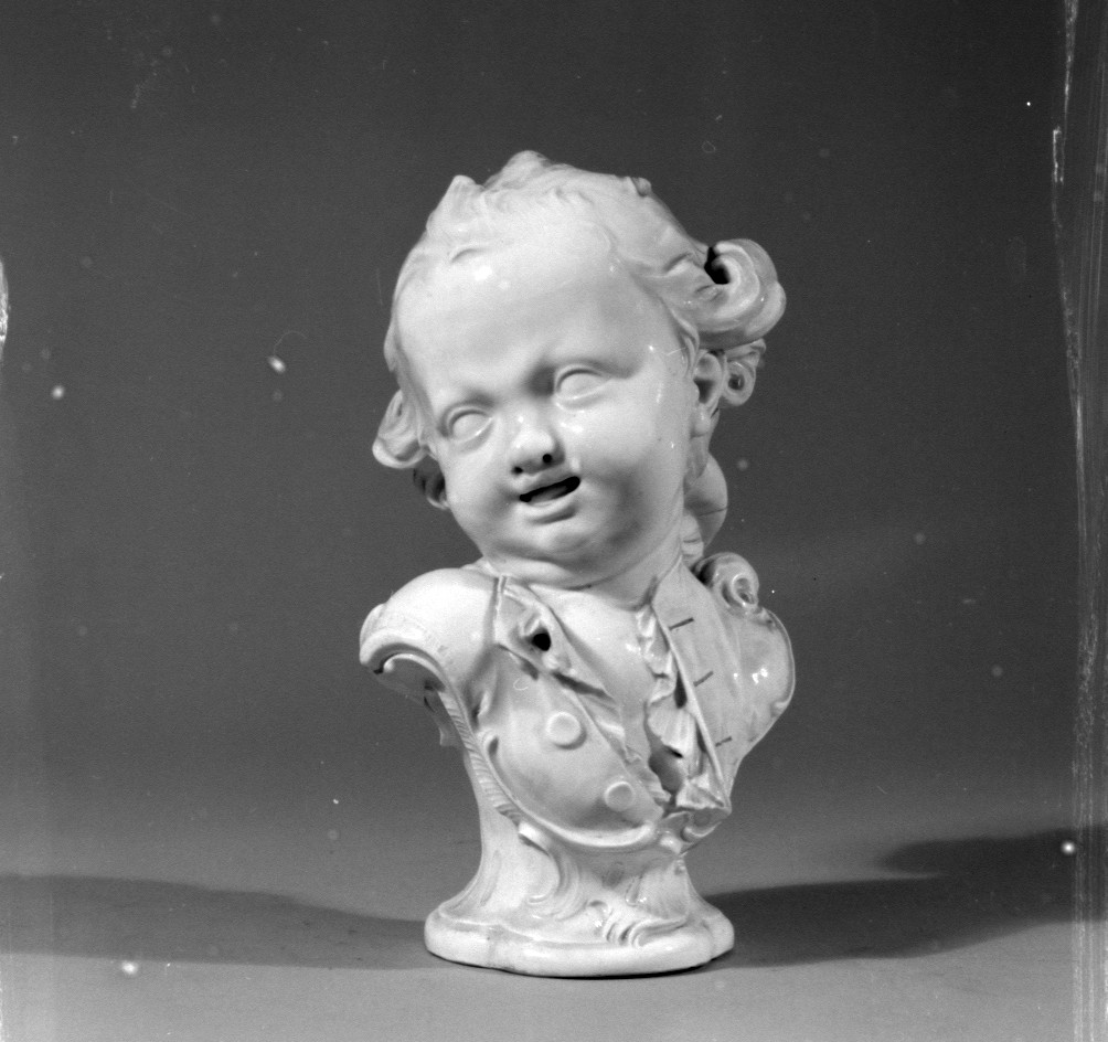 German, Neudeck-Nymphenburg; Bust; Ceramics-Porcelain